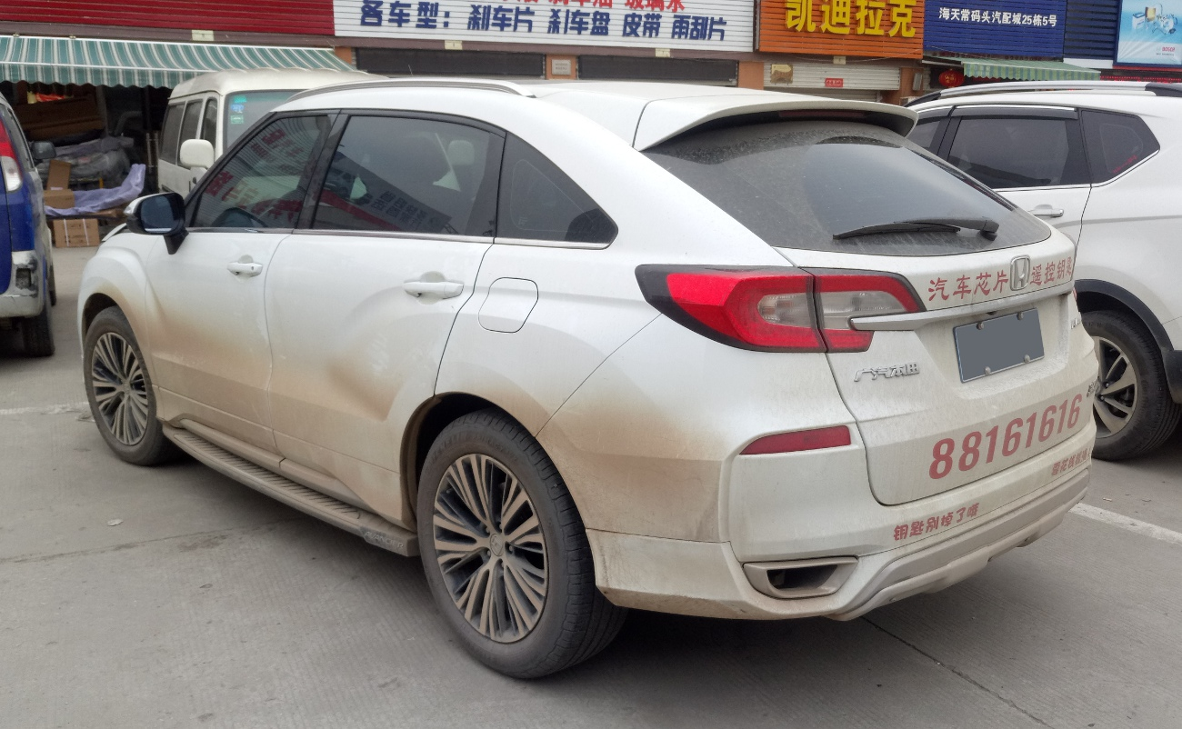 Honda Avancier CN photographed in Wuhan, Hubei province, China.